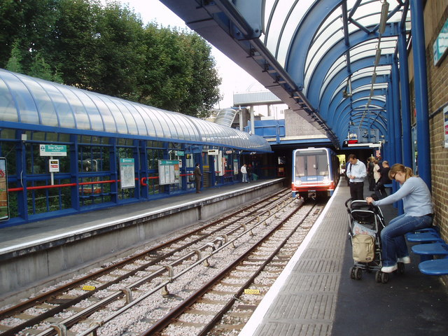 Bow Church station, Docklands Light Railway. The DLR is deservedly popular with East Londoners, providing a reliable and frequent service over a wide area. It also provides excellent views and, if you do not already know the area, a ride on this railway is to be thoroughly recommended.